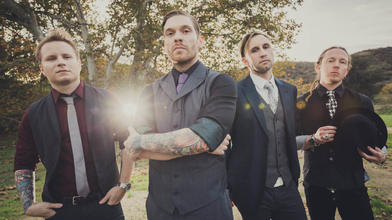 A picture of the band Shinedown in 2015